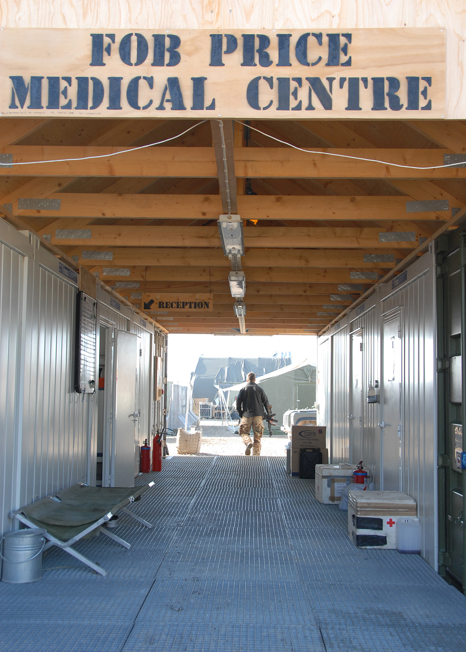 The following is the author's description of the photograph quoted directly from the photograph's Flickr page. "GURESHK, Afghanistan--The Forward Operating Base (FOB) Price Medical Clinic is one of three clinics operating out of FOB Price in the Gureshk District of Helmand Province on Jan. 27, 2009. The clinic services troops deployed to Task Force Helmand while the Host Nation Clinic offers free care to local Afghan residents three times a week. ISAF photo by U.S. Navy Petty Officer 2nd Class Aramis X. Ramirez (RELEASED) "